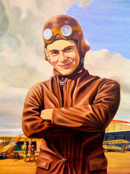 2nd Lt. Carl Spencer Mather, an Army Signal Corps pilot, was killed in 1918, during one of the first training classes for World War I pilots. Mills Field was renamed in Mather's honor at the request of his classmates.